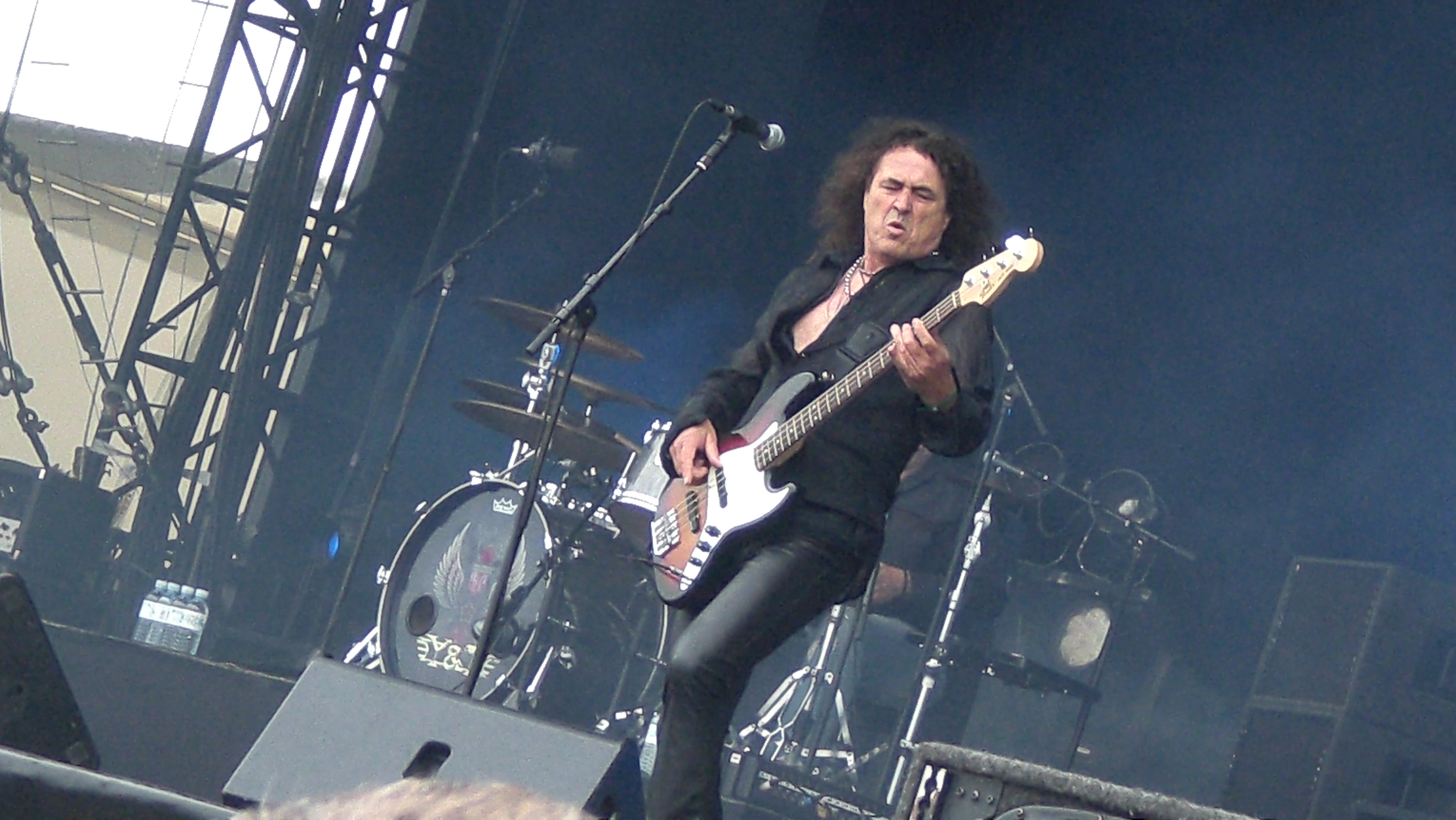 Phil Kennemore at Hellfest in France, the Saturday 19th June